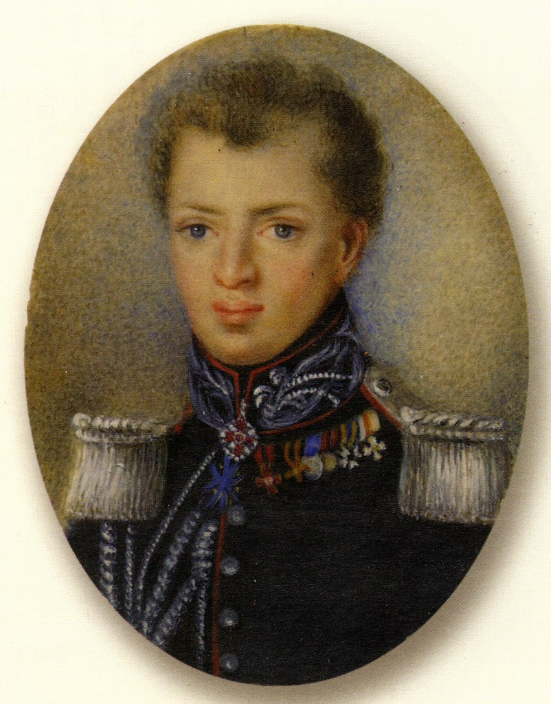 Shubert Fedor Fedorovich